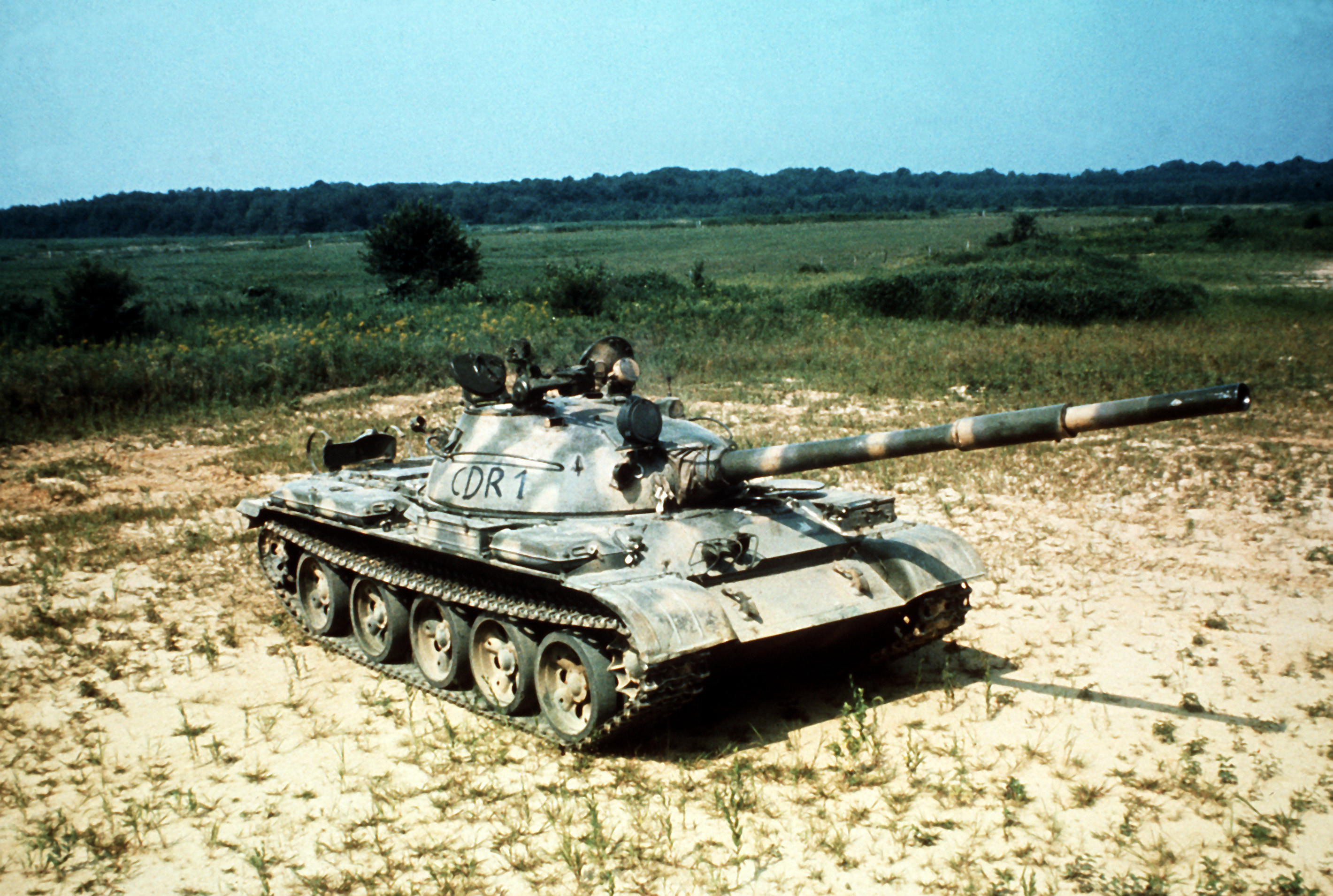 A right front view of a Soviet-built T-62 main battle tank.